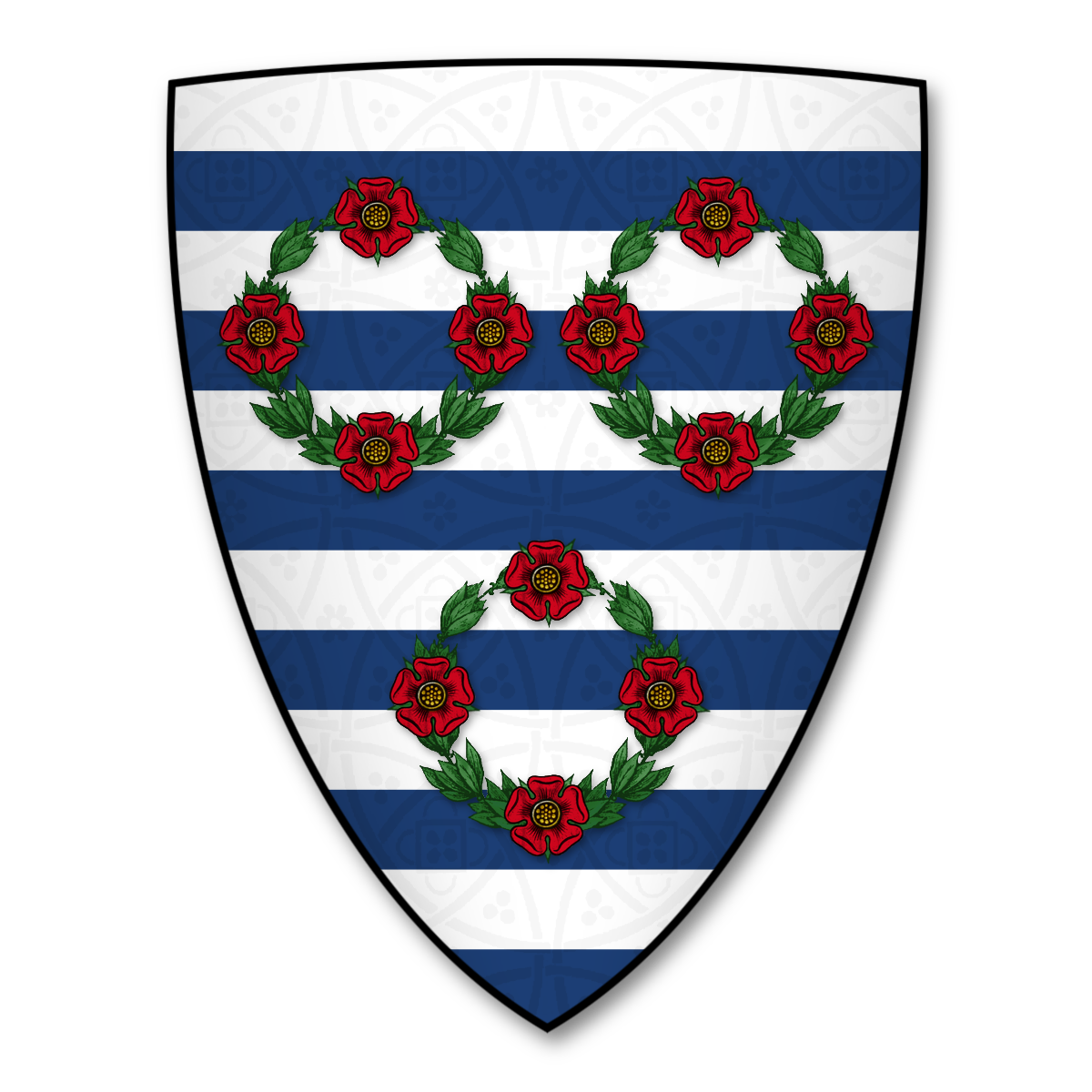 Coat of arms of Ralph FitzWilliam, as blazoned in the Caerlaverock Poem (K-027: "Rauf le FitzGuilleme") "Ke cil de Valence portoit Car en lieu des merlos mettoit Trois chapeaus de rosis vermelles" Arms: Barruly argent and azure, three chaplets gules.